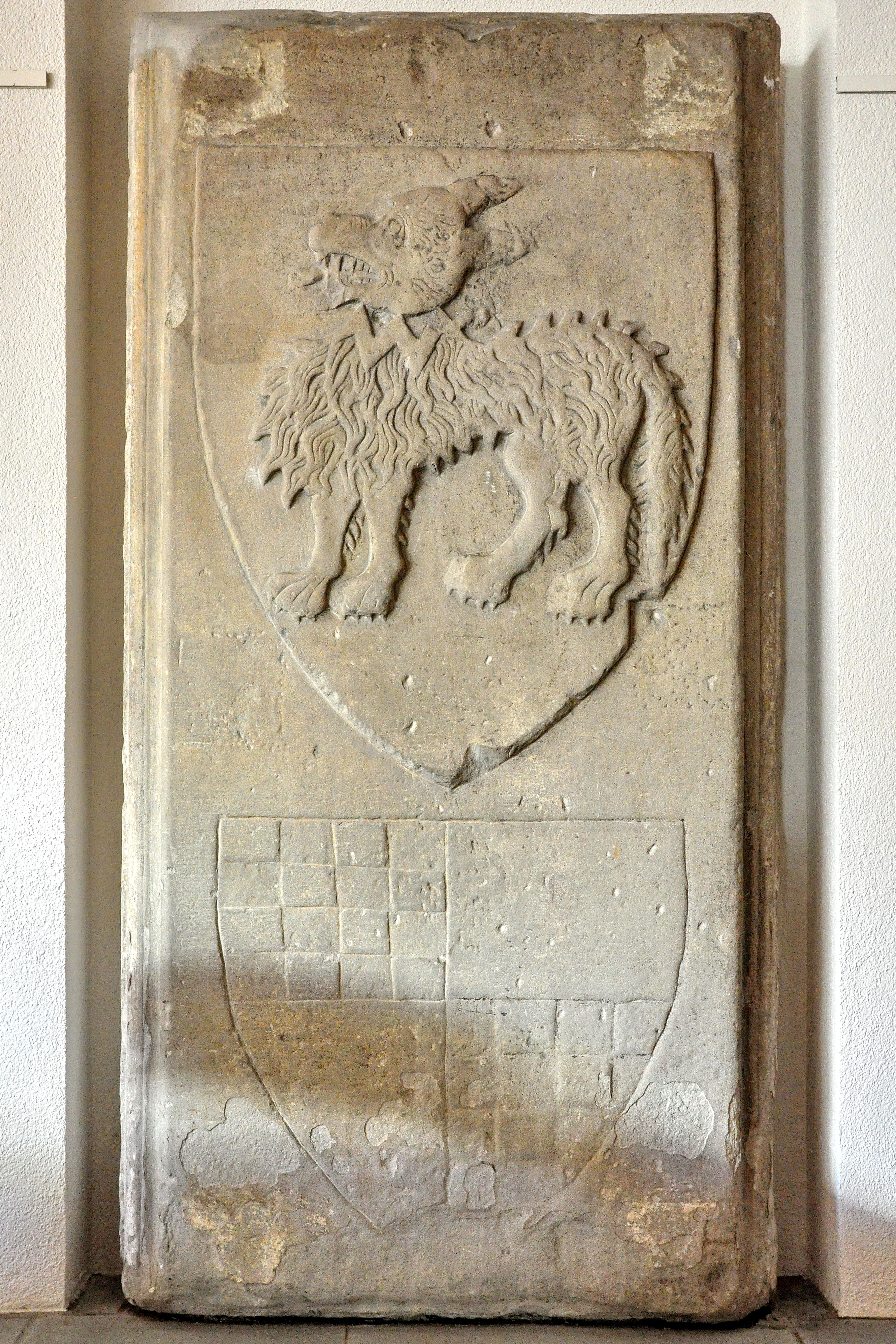 Rüti (Switzerland) : Former Rüti Abbey, remains of the so-called Toggenburgergruft (Burial vault of the Counts of Toggenburg) in the Protestant church.. In the picture, the crypts of Frederick V of Toggenburg and his wife Kunigunde von Vaz